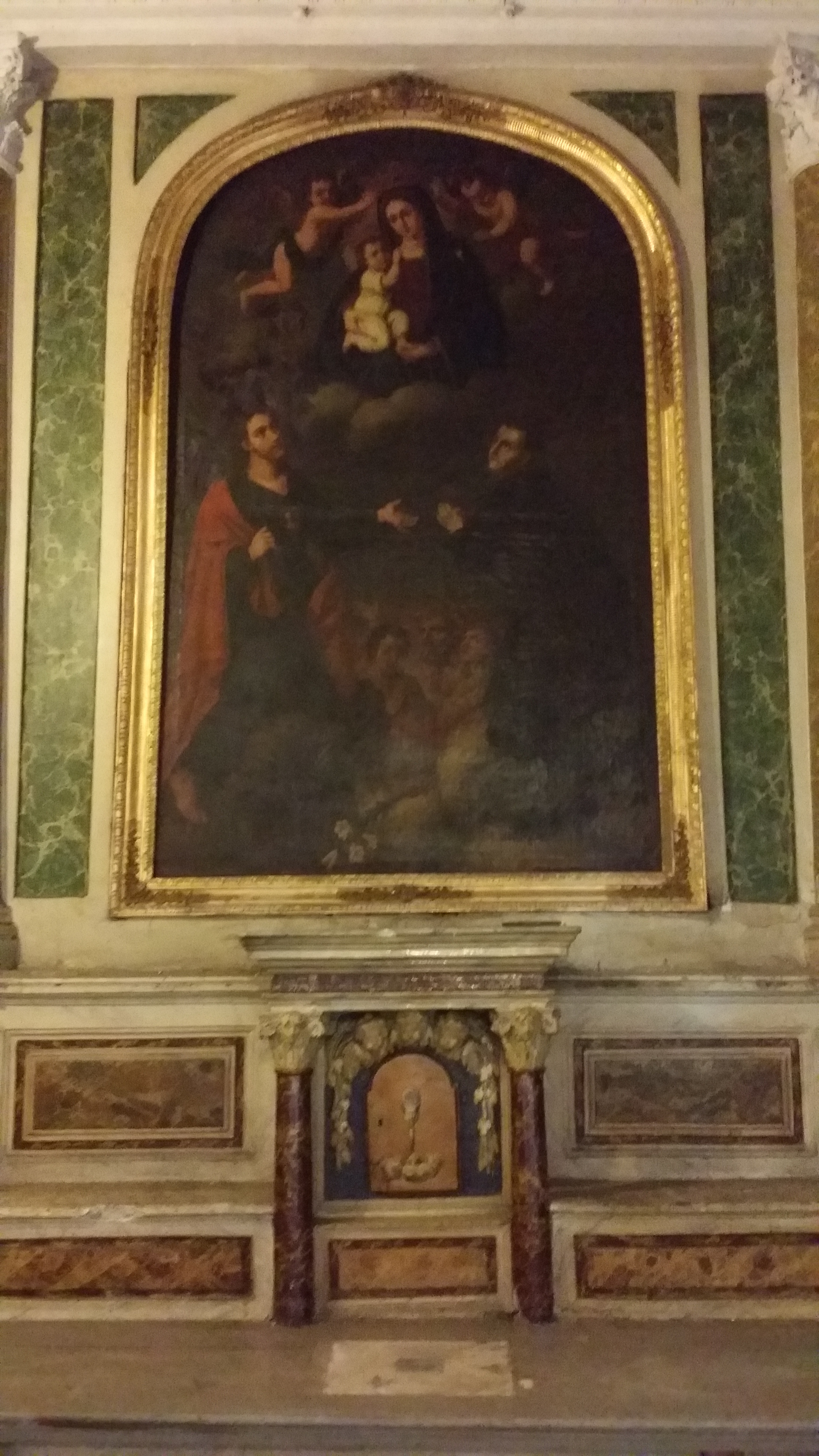 17th century altarpiece painted by Carlo Rosa, depicting the Most Holy Virgin Mary of Carmine with Jesus Child arm and placed between St. Judas Thaddeus the Apostle and St. Gaetano Thiene with the purgative souls below